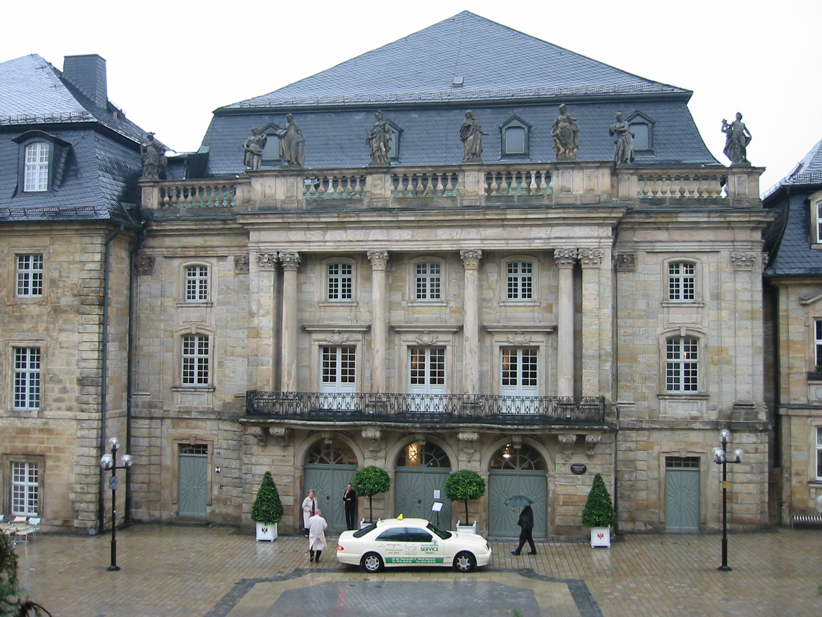 Bayreuth, Germany: Markgräfliches Opernhaus (the Baroque opera house of the Margraves of Bayreuth)